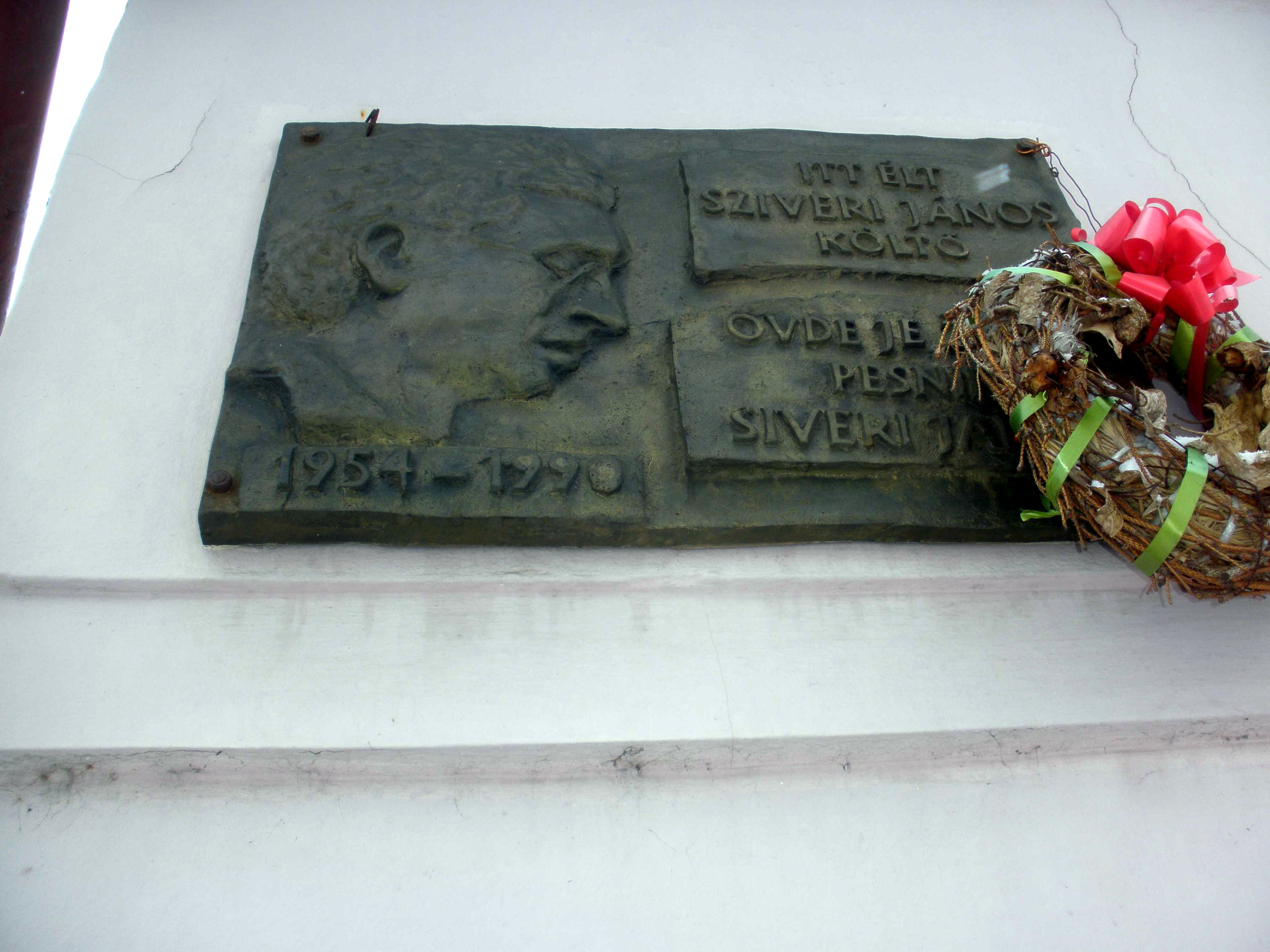 face of poet János Sziveri on house, where he lived in Mužlja, Vojvodina, Serbia